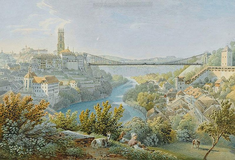 View of Fribourg with the old Zähringer bridge